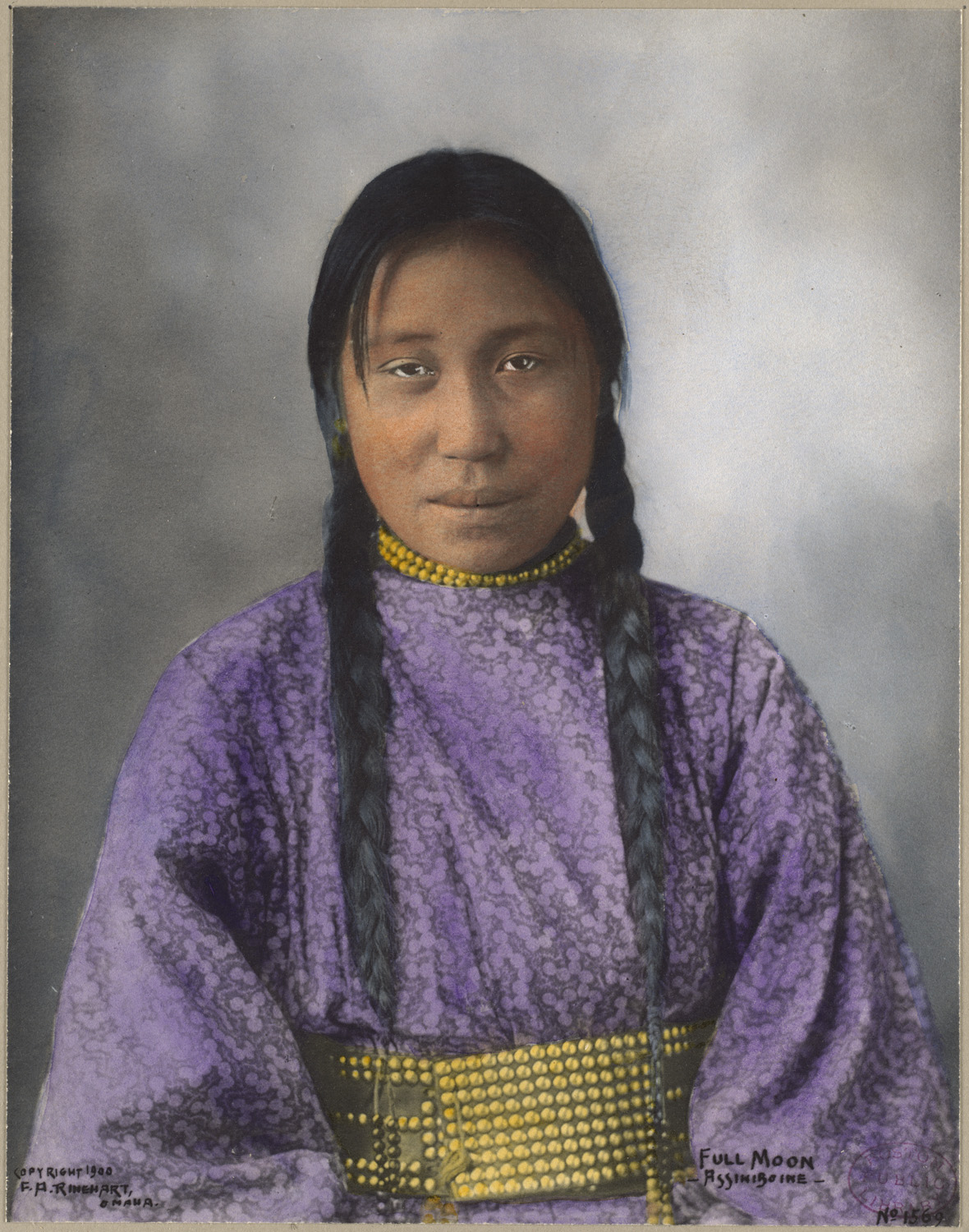 BPLDC no.: 09_06_000096 Rinehart no.: 1569 Title: Full Moon, Assiniboine Photographer: Rinehart, F. A. (Frank A.) Copyright date: 1900 Extent: 1 photographic print : platinum, hand-colored Genre: Platinum prints; Portrait photographs Subject: Indians of North America; Assiniboine Indians; Trans-Mississippi and International Exposition (1898 : Omaha, Neb.) BPL Department: Print Department